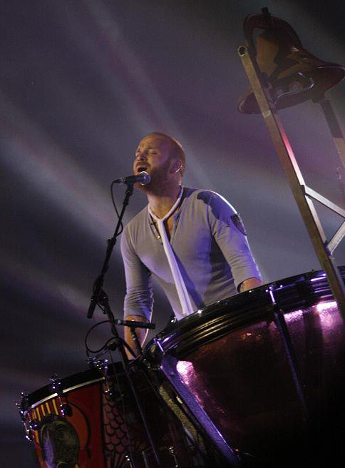 Will Champion performing "Viva la Vida" during the band's 2008 tour Viva la Vida